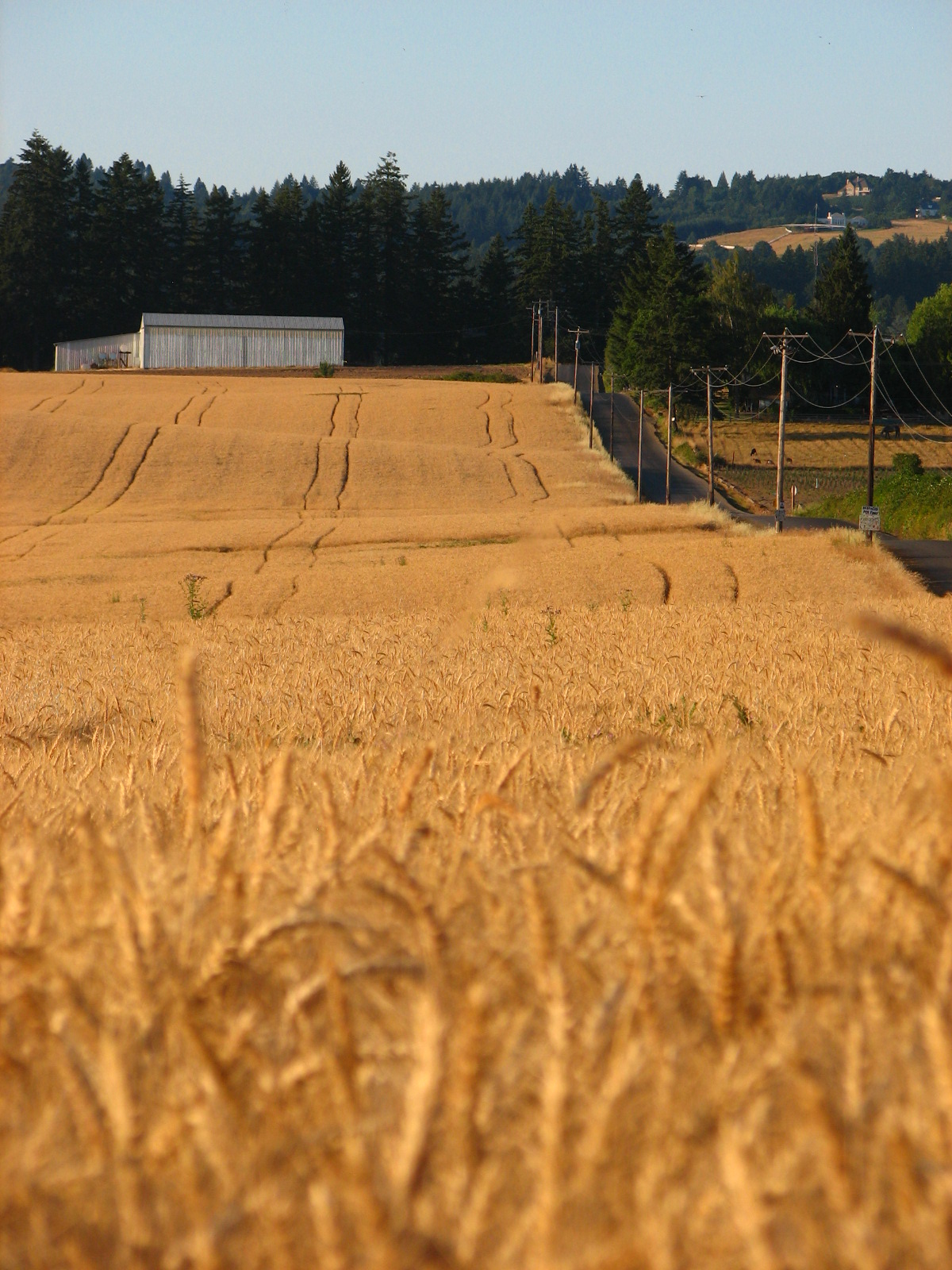 A field of wheat in rapidly suburbanizing Washington County, Oregon, United States, just outside of Portland.